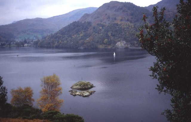 Ullswater and Glenridding Dodd Looking across the lake to the dodd with Lingy Holm island below. Glenridding village to the left.